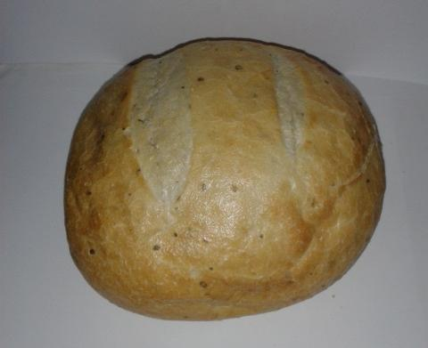 Dutch "Italian style" bread bun